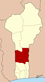 Map of Benin highlighting the department Collines